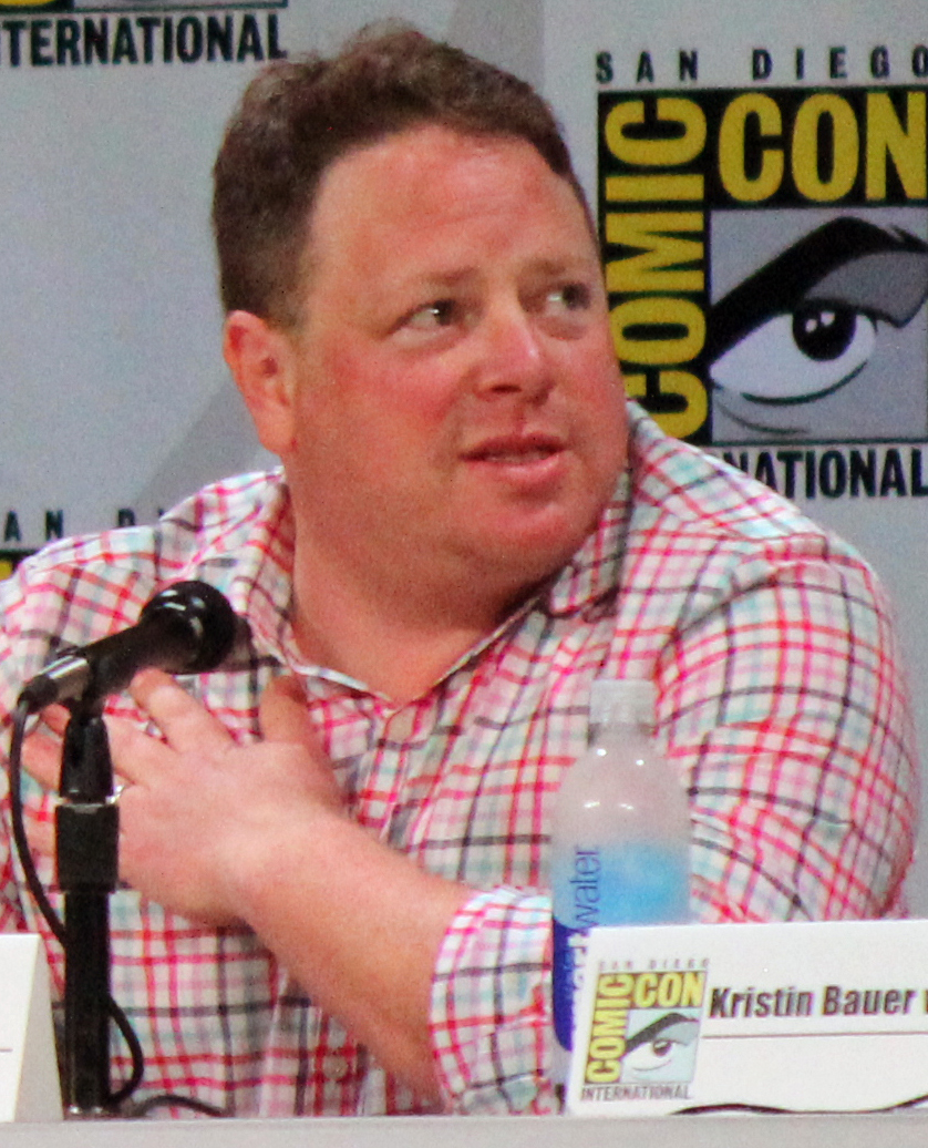 Brian Buckner at the True Blood panel at the 2014 Comic-Con convention in San Diego, California.